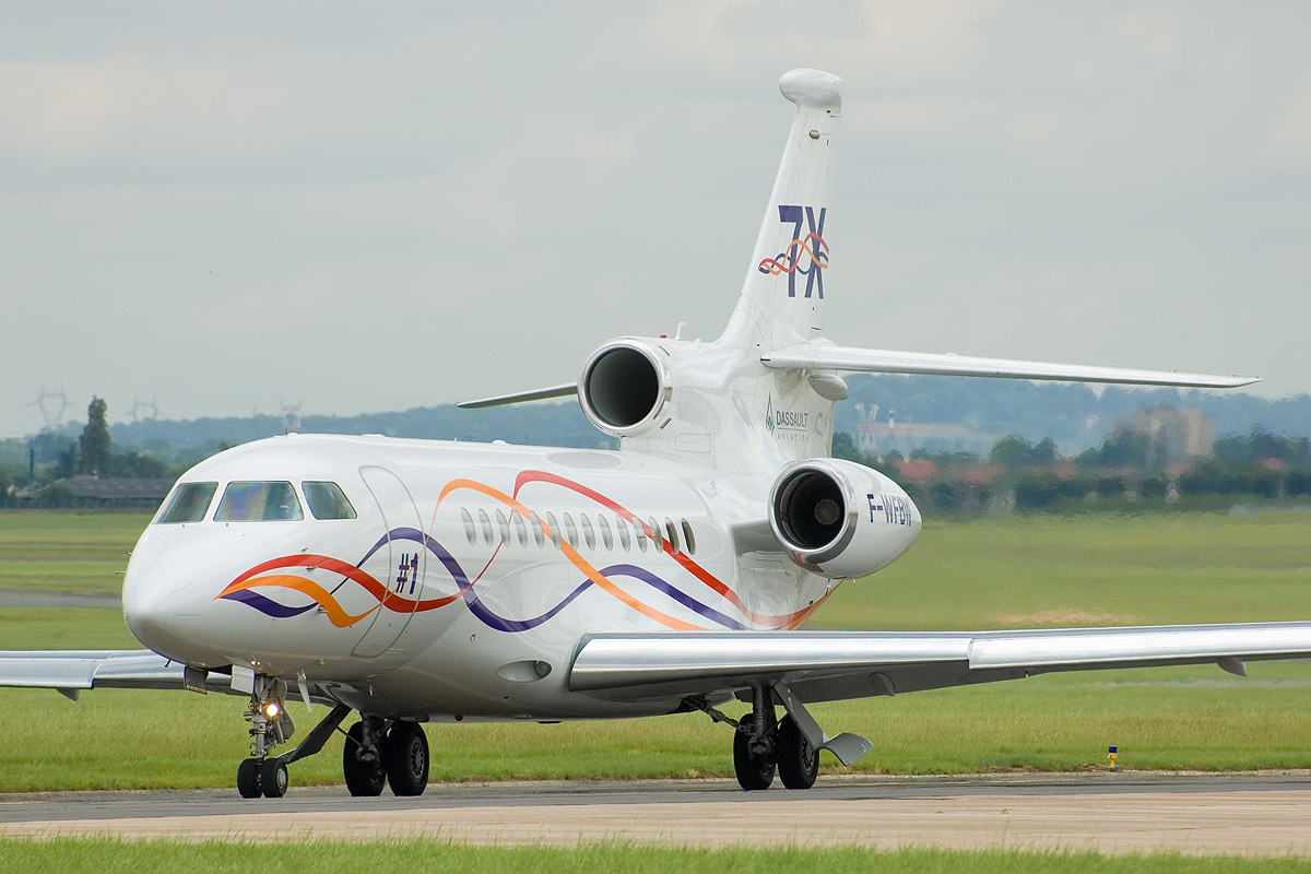 Dassault Falcon 7X at Paris Air Show 2007